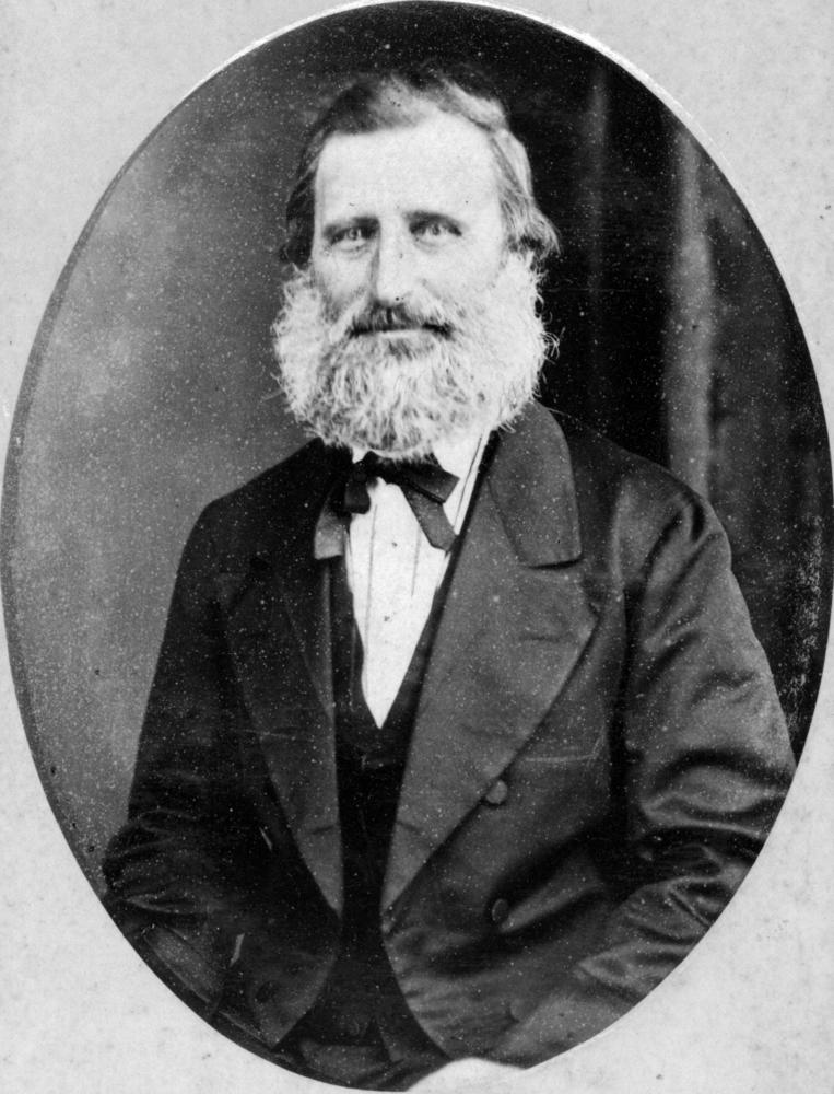 William Pettigrew, Brisbane, ca. 1875. This photograph was published in JOJ, March 1980.